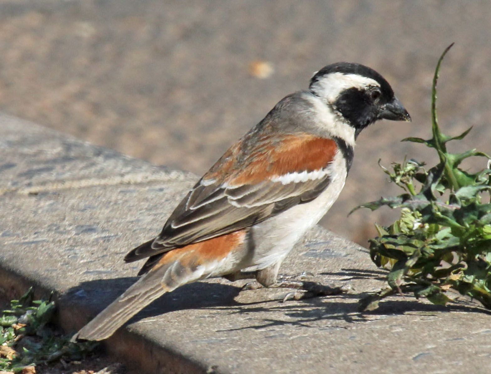 Male Cape Sparrow (Passer melanurus) at Johannesburg, South Africa